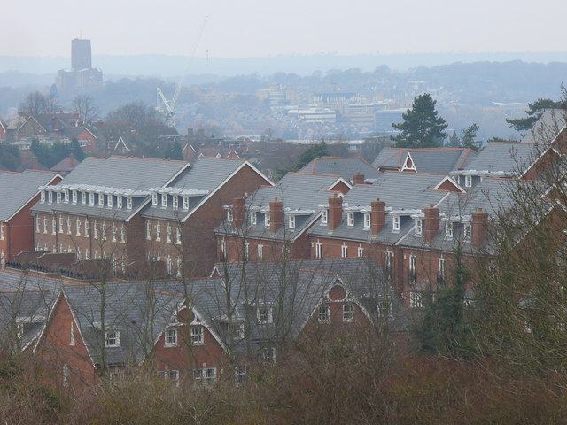 St Luke's New housing estate on the site of Guildford's former St Luke's Hospital - seen from Pewley Down. In the distance is Guildford Cathedral on Stag Hill.